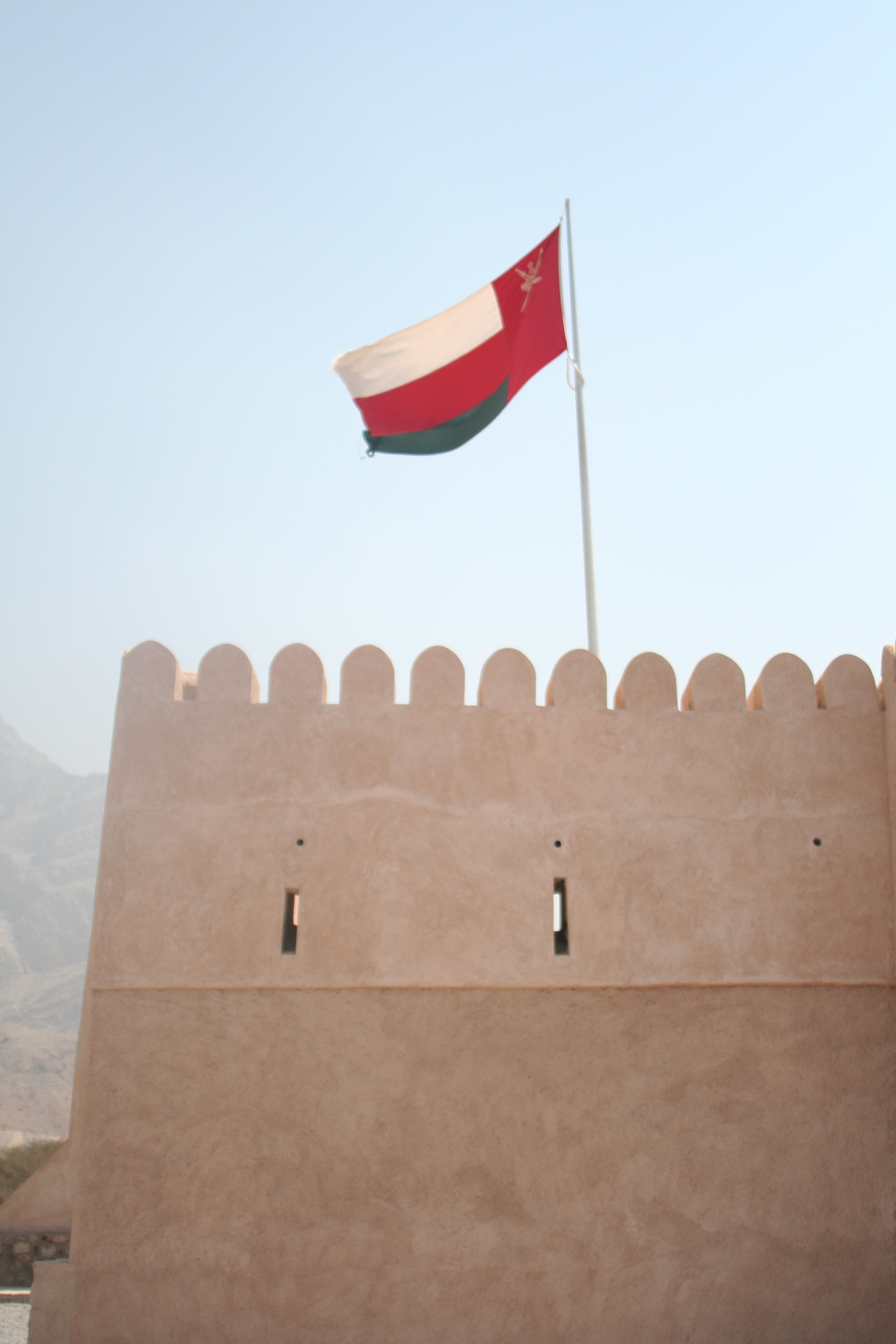 Visitor's center for Bukha Castle in Oman.